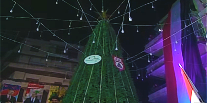 For the first time since the civil war began, Christmas was celebrated in Aleppo, with a tree lighting ceremony.